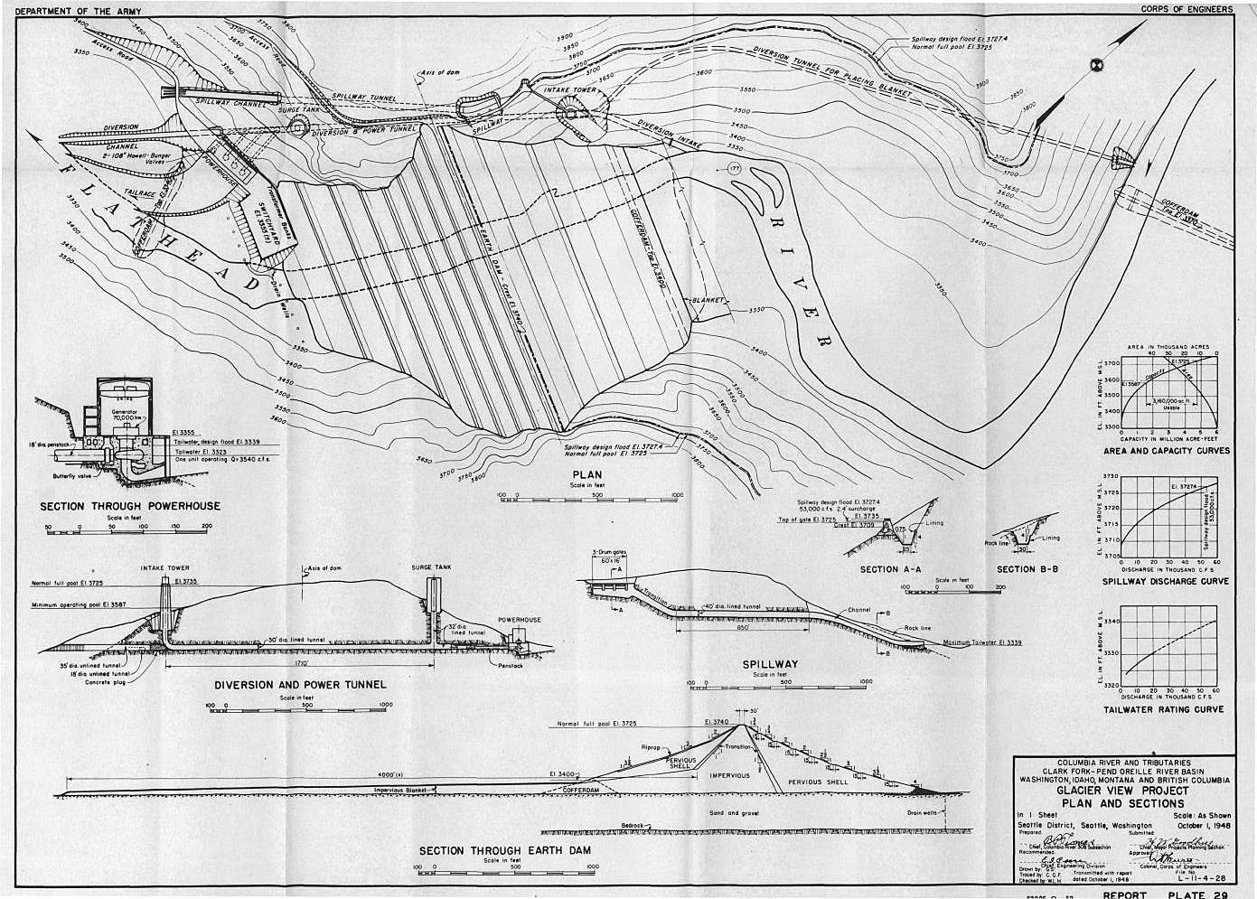 Plans for the never built Glacier View Dam on the North Fork of the Flathead River, in Montana. Proposed site was next to Glacier National Park.